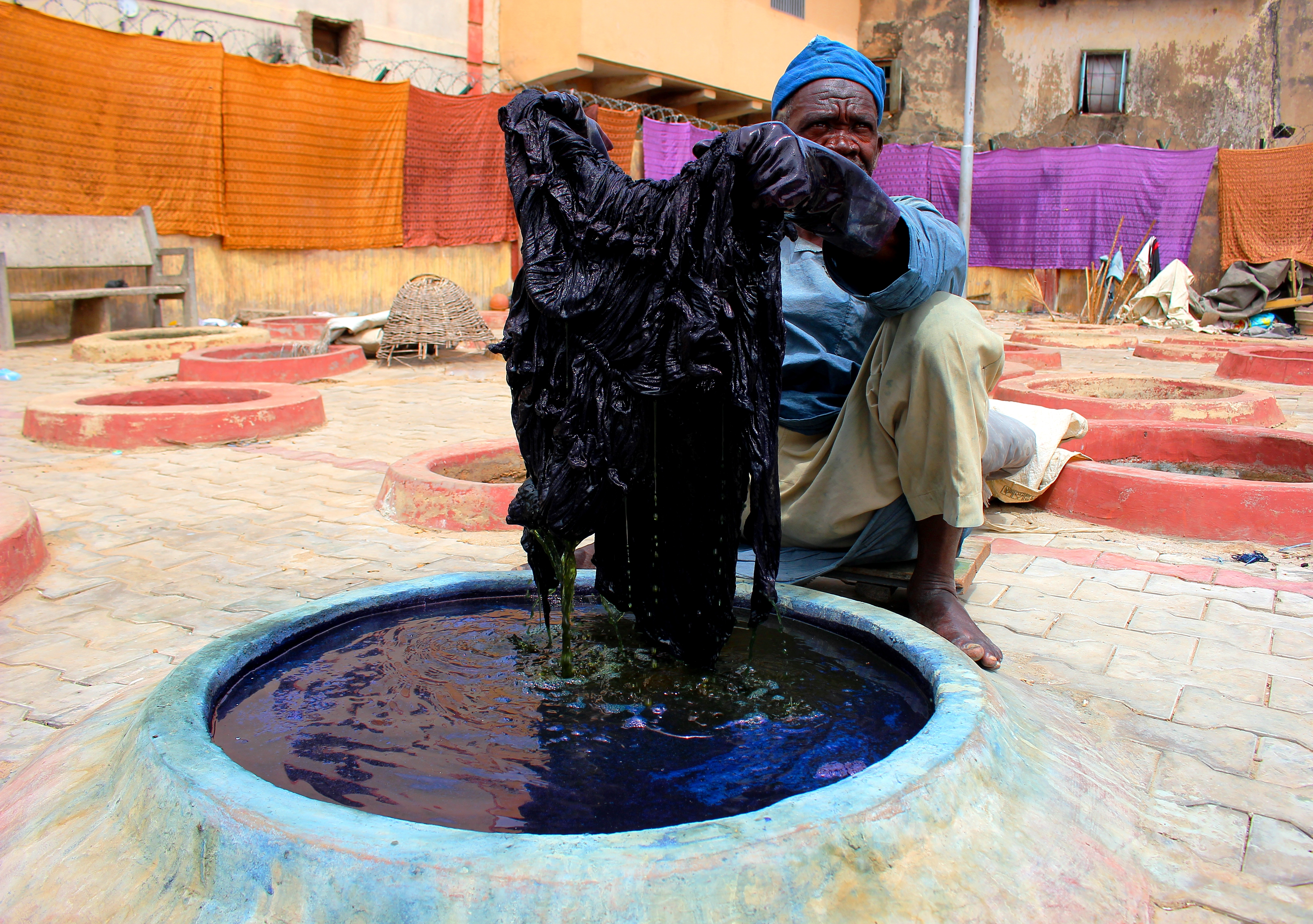 Workers at a dye pits compound in Kano working on combining dye colors to create patterns on fabric. This is an image of "African people at work" from Nigeria